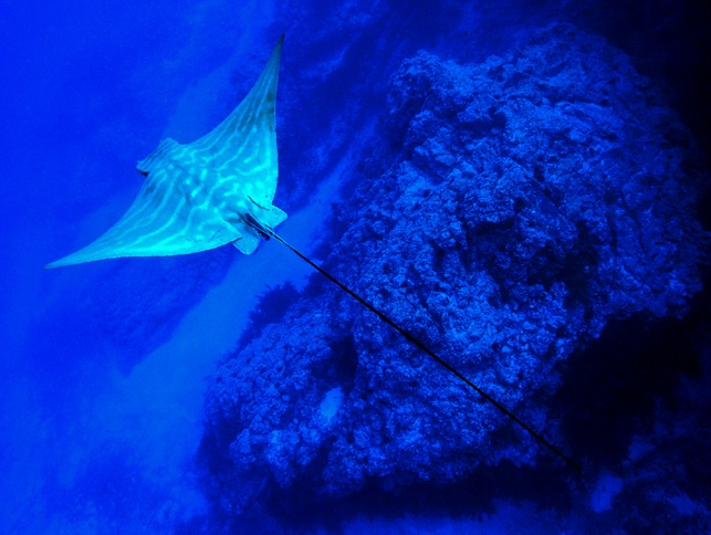 Bull ray (Pteromylaeus bovinus) off Tenerife.